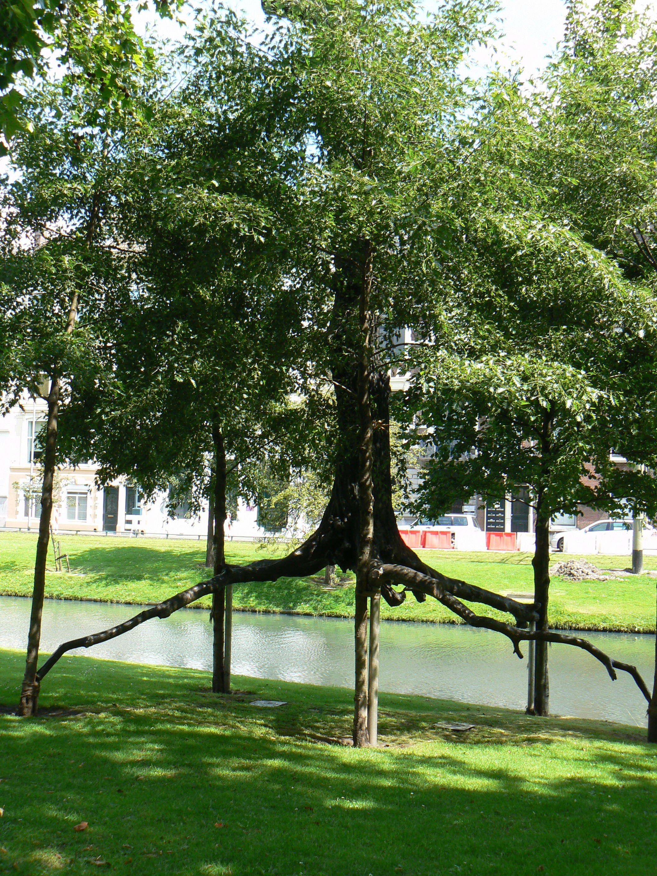 "Elevazione"by Giuseppe Penone in Rotterdam/The Netherlands